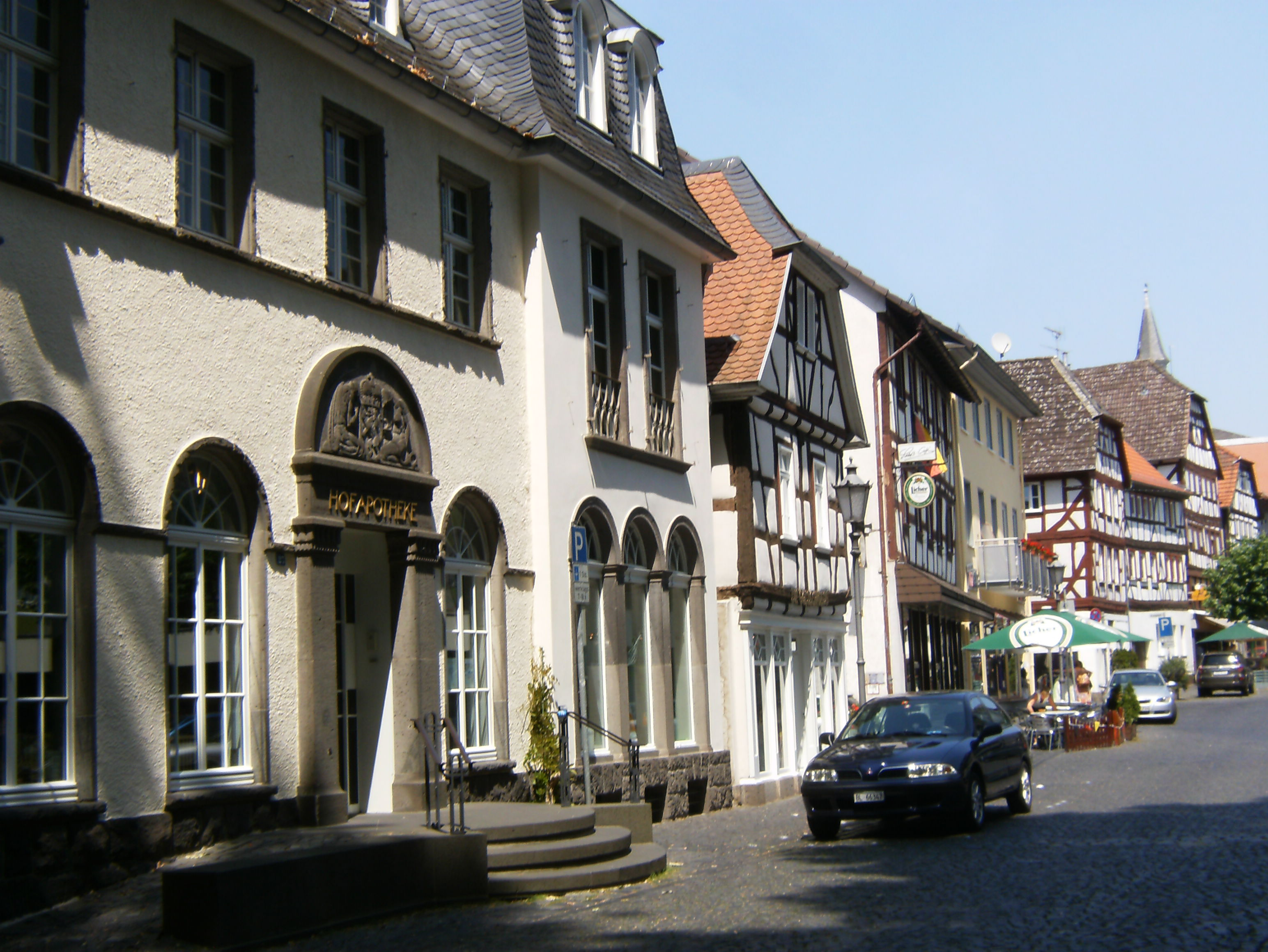 Lich (Hesse), Unterstadt 23, 25 with "Hofapotheke" (Court pharmacy) building and Unterstadt 21 (timber framed house)